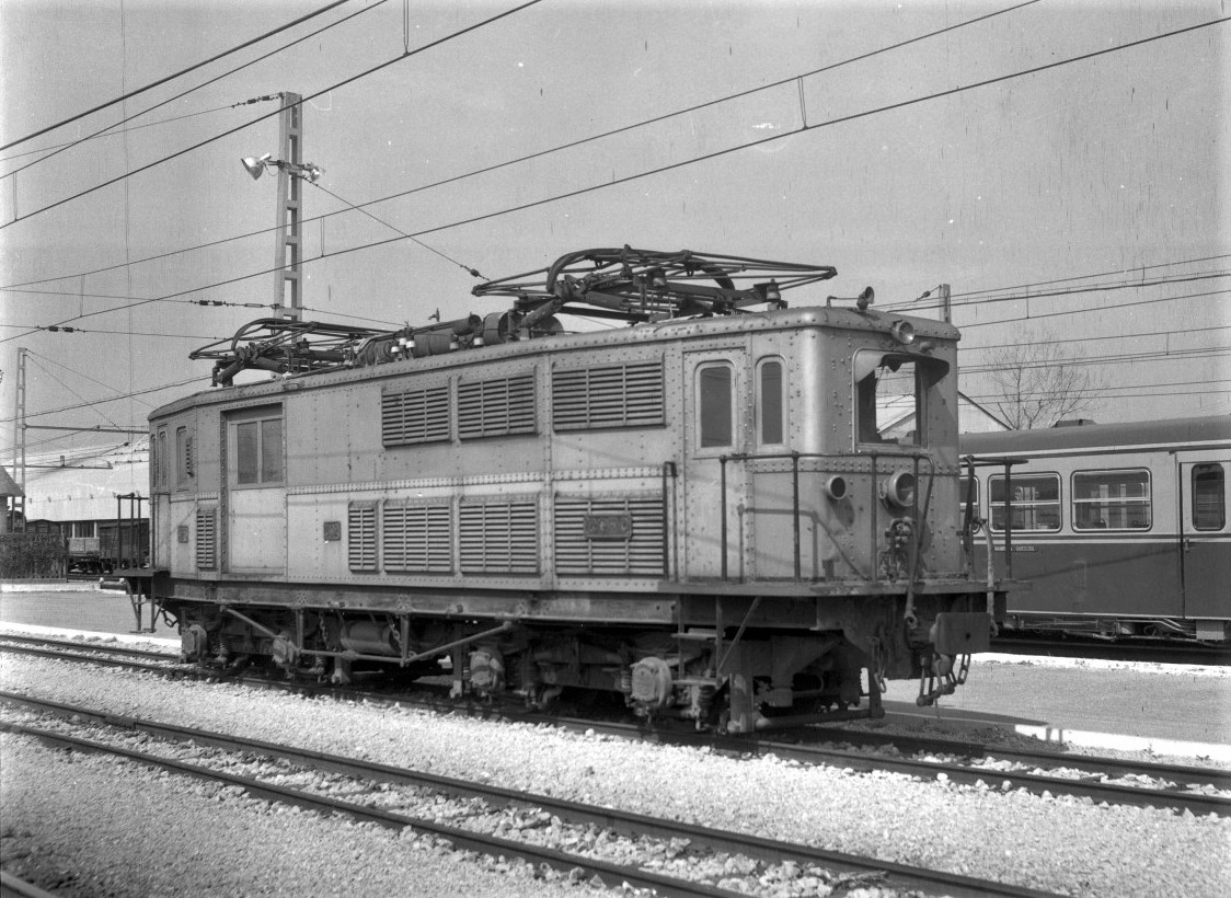 The 302 electric locomotive of the Compañía General de los Ferrocarriles Catalanes at the Martorell Enllaç station, in the light blue and silver colors characteristic of the sixties.